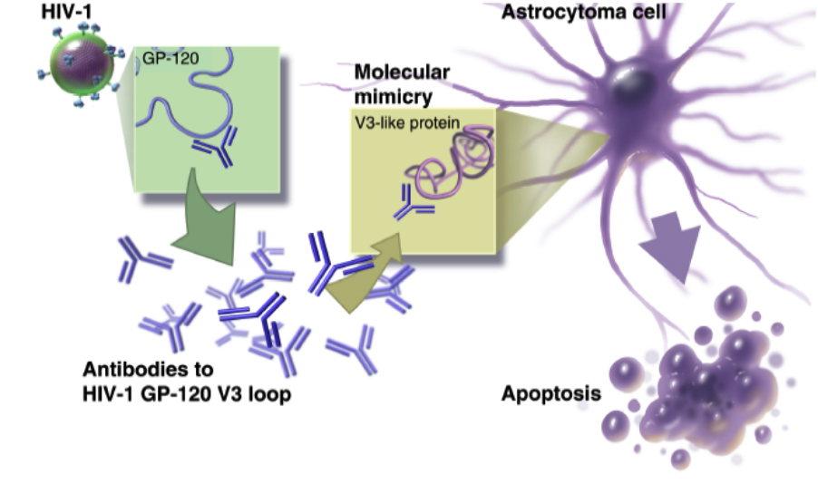 Molecular Mimicry of HIV-1